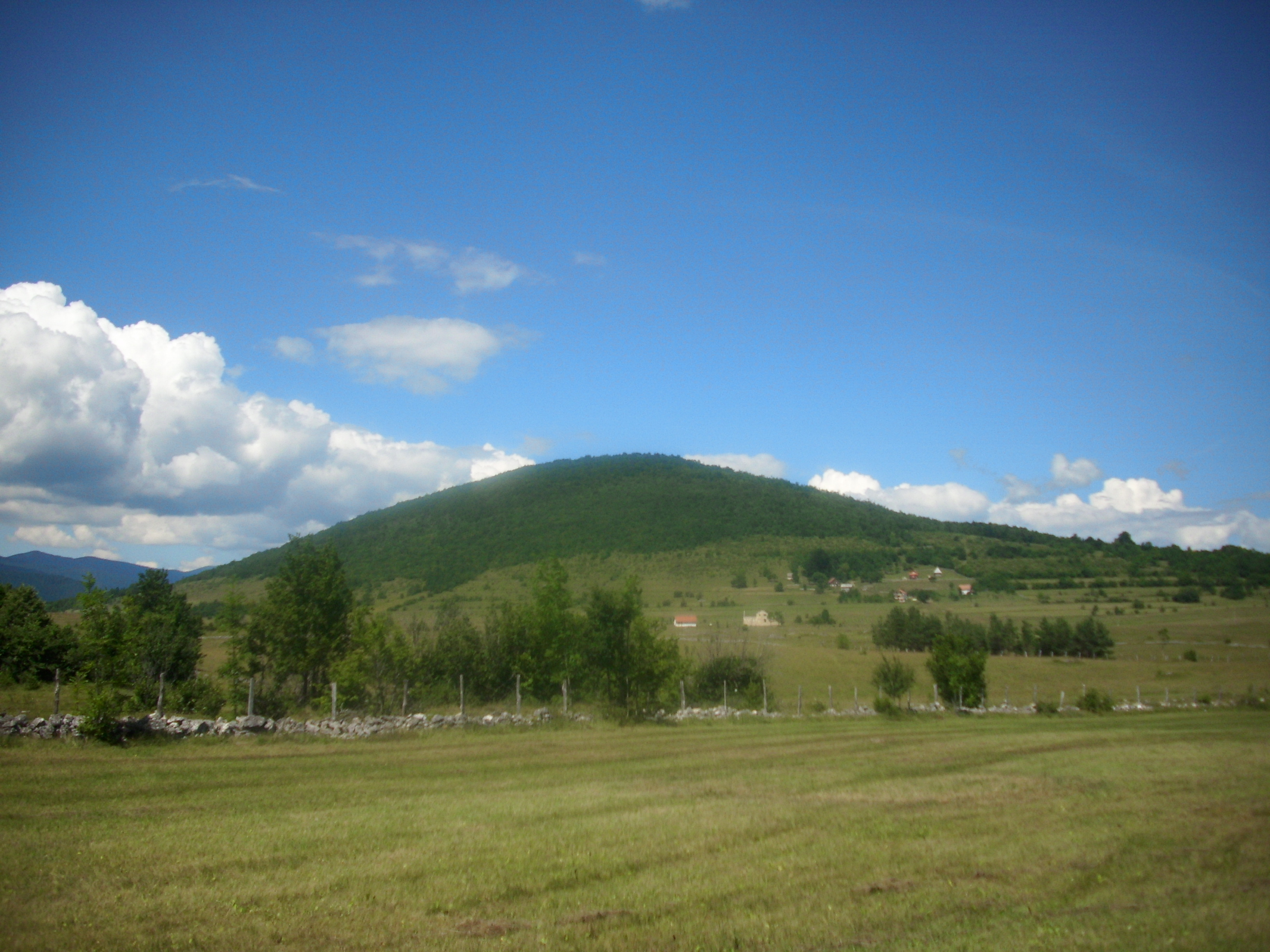 Dragnić Podovi and Lunja Glava hill